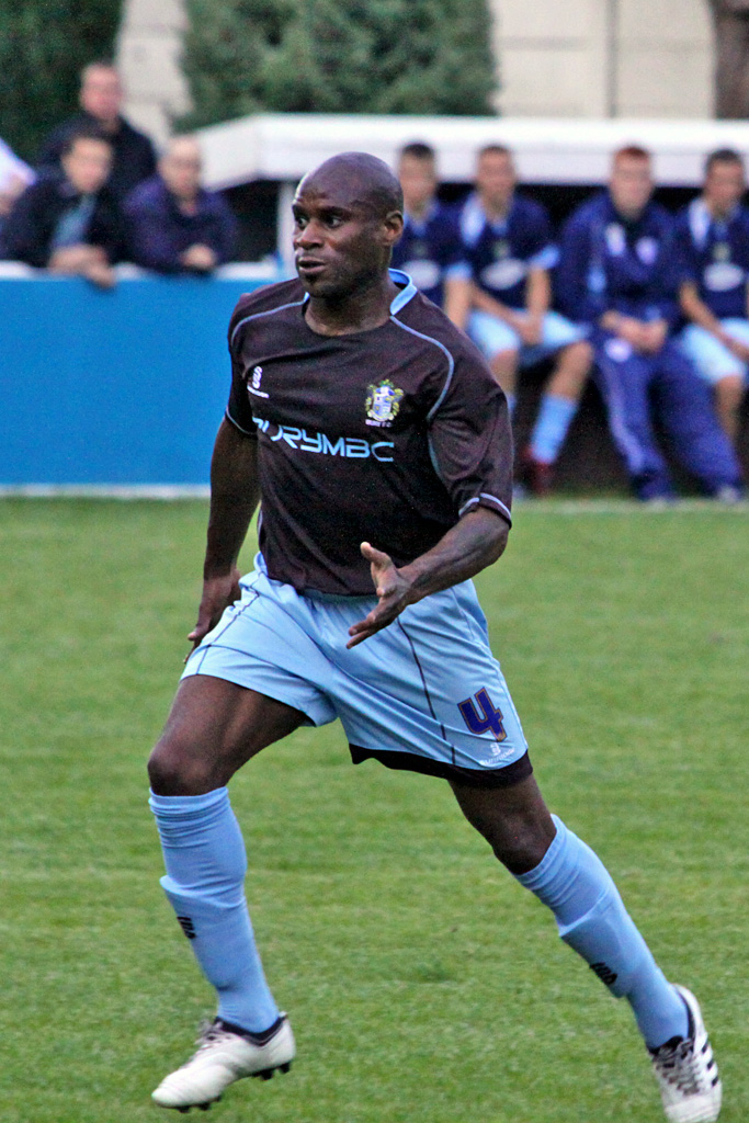 Bury FC trialist Frank Sinclair during the Ramsbottom United vs. Bury friendly game at The Riverside, home of Ramsbottom United FC. Tuesday 4th August 2009